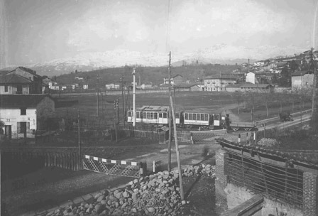 Biella-Mongrando railway